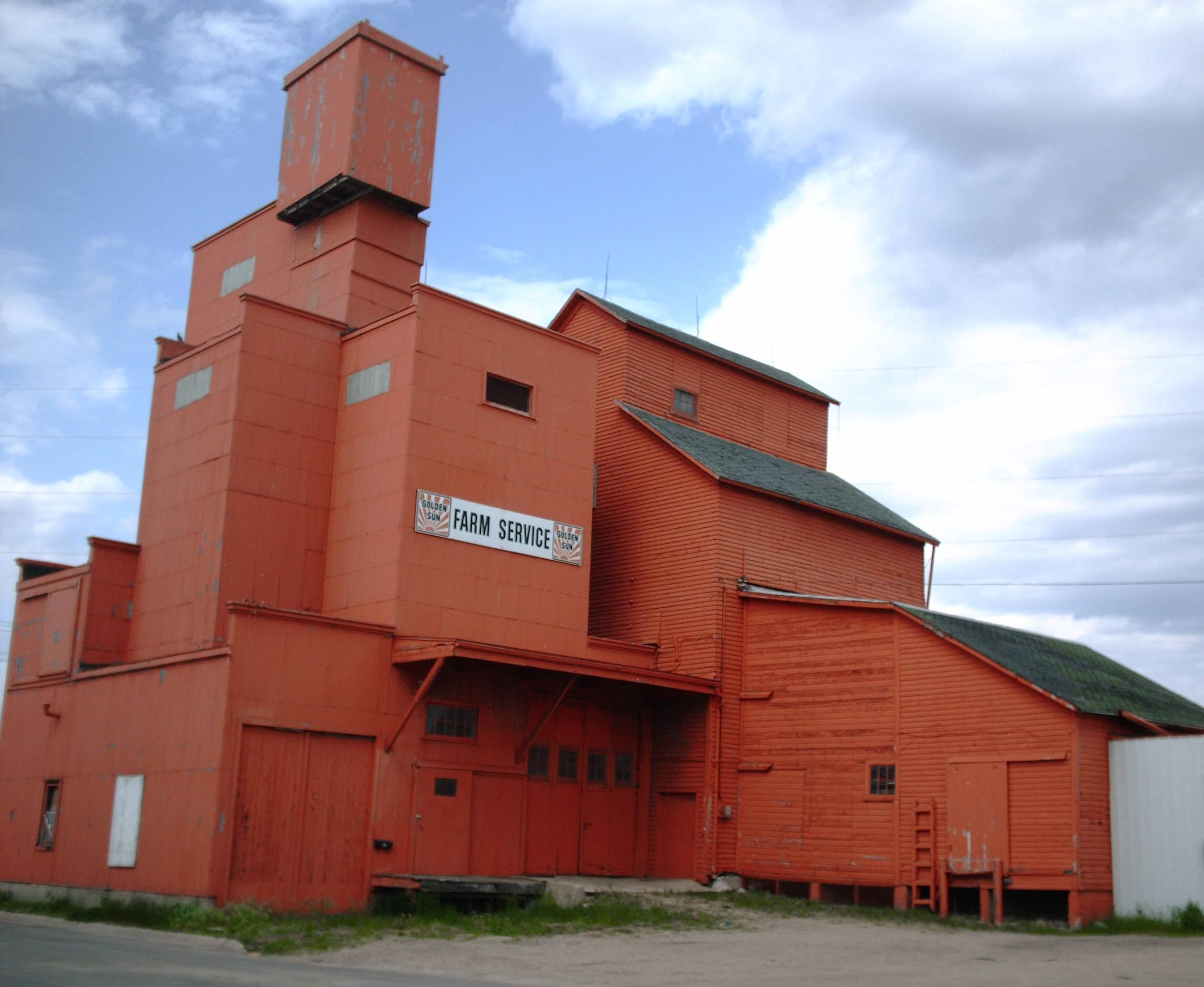 Photo I took 2006-05-20 of an old grain elevator in Estherville, Iowa. CC & GFDL.